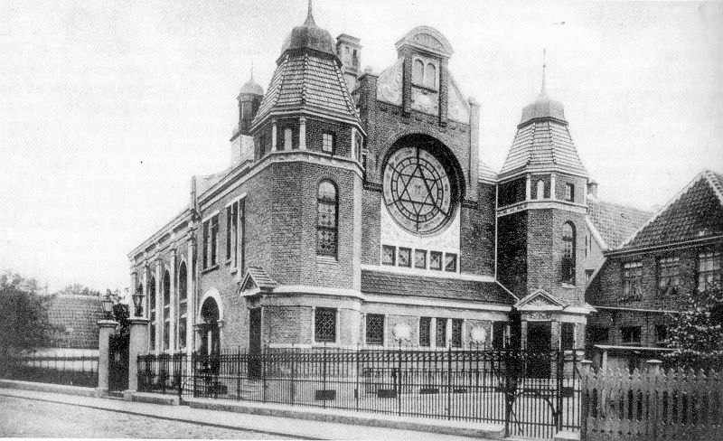 Synagogue of Emden in Germany, destroyed by the nazis during the Kristallnacht in 1938